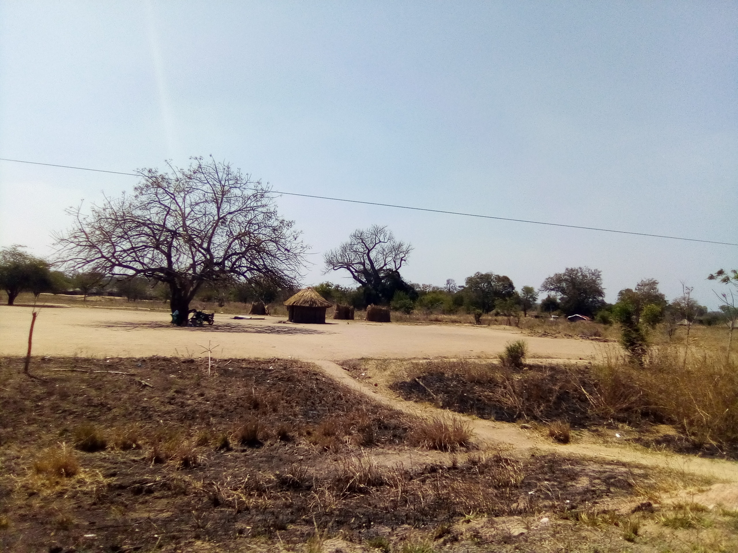 This is an image with the theme "Africa on the Move or Transport" from: Mozambique